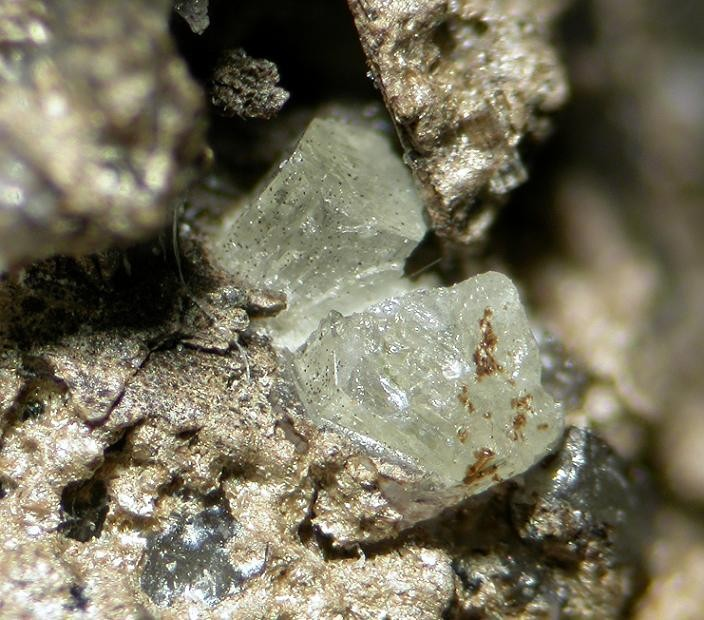 Fluorcaphite Locality: Koashva Mt, Khibiny Massif, Kola Peninsula, Murmanskaja Oblast', Northern Region, Russia Greenish transparent crystals of Fluorcaphite. Field of view 5 mm. Specimen and photo Leon Hupperichs.